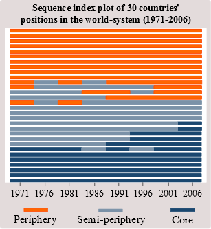 Sequence index plot showing the positions of 30 countries in the world-system. Positions determined using trade network data from the Correlates of War Project. Plot generated using the SQ sequence analysis package in Stata.